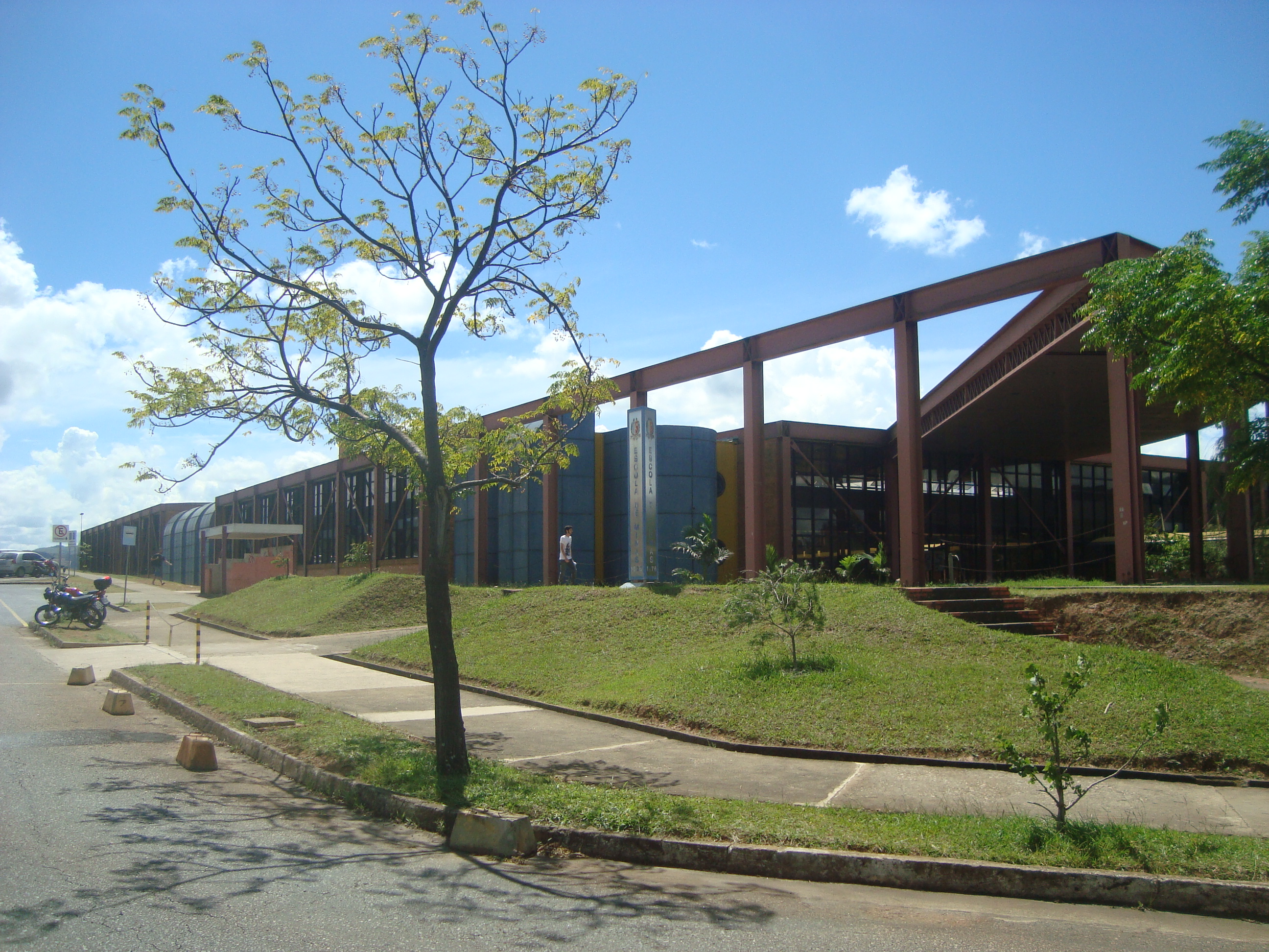 School of mines' new building